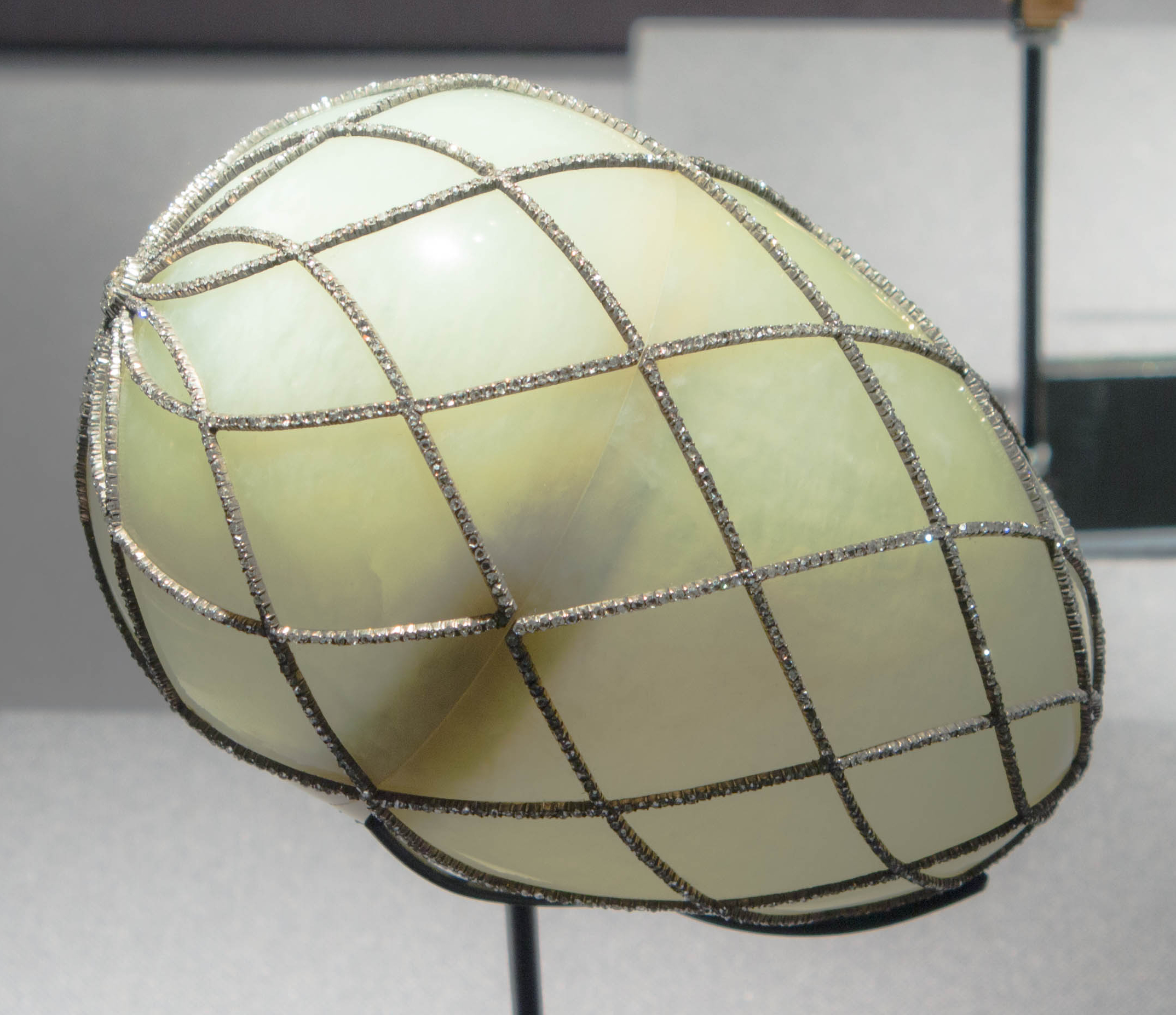 The Diamond Trellis Egg is a jewelled enameled Easter egg made under the supervision of the Russian jeweller Peter Carl Fabergé in 1892. The egg was made for Alexander III of Russia, who presented it to his wife, the Empress Maria Feodorovna.